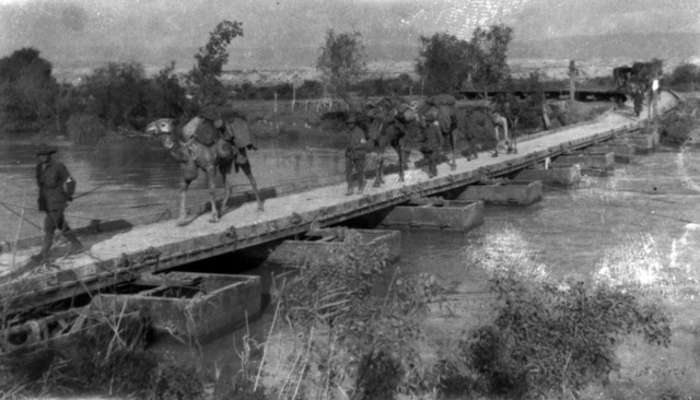 AWM caption : THE 2ND A.L.H. CAMEL FIELD AMBULANCE CROSSING THE PONTOON BRIDGE OVER THE RIVER JORDAN AT GHORANIYEH FORD ON THEIR RETURN FROM THE FIRST "STUNT" EAST OF THE JORDAN, EARLY IN 1918-04.